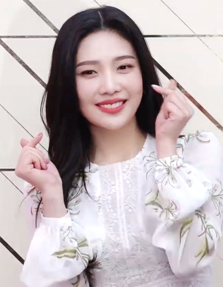 Joy Park at Bulgari Event in Seoul 2019